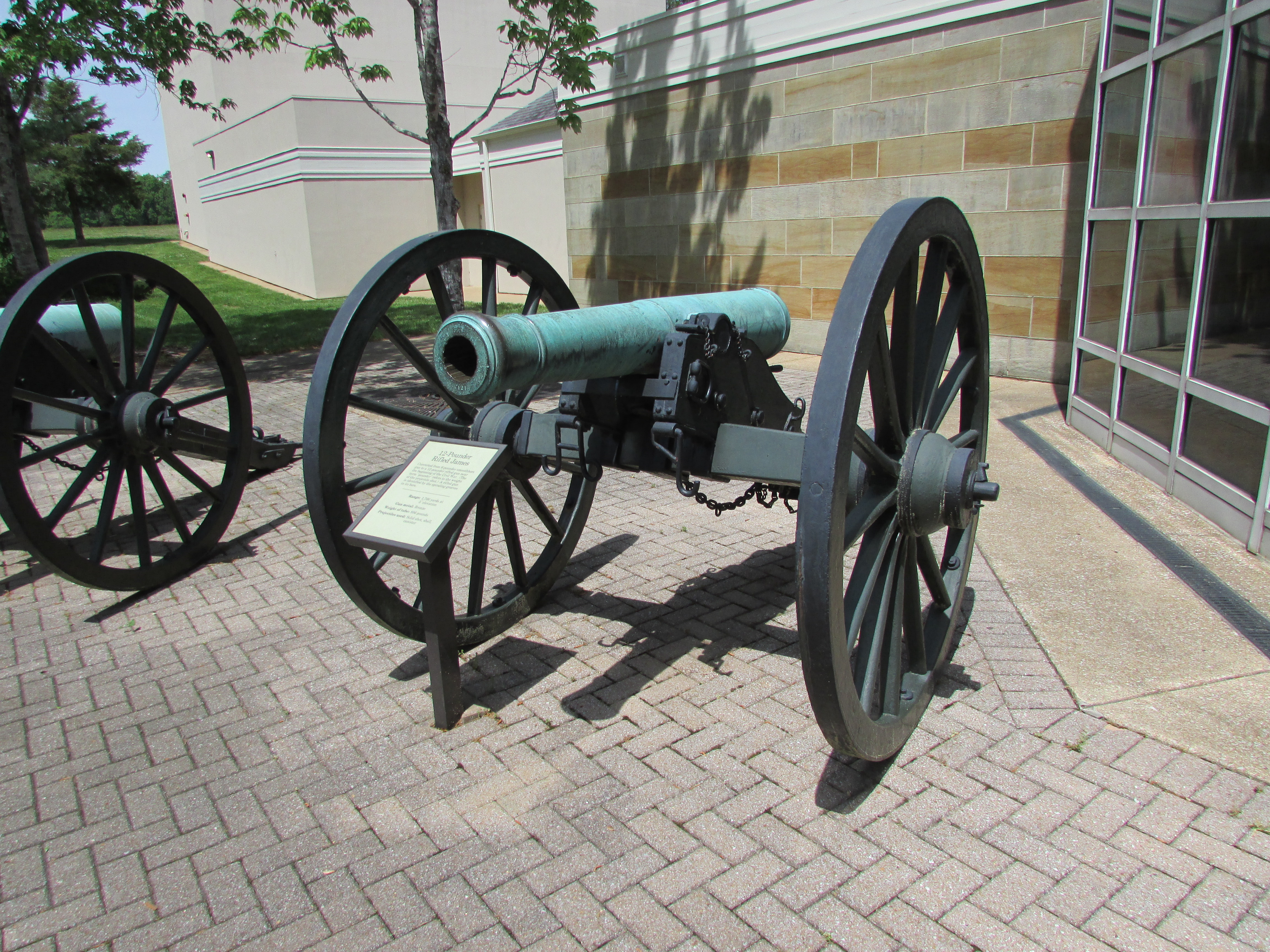 12-Pounder Rifled James field gun on display the Chickamauga Battlefield Visitors' Center. These guns started out as 6-pounder smoothbore field guns but early in the war were bored out and rifling (spiral grooves) added to the barrels to allow for heavier projectiles and more accurate fire.